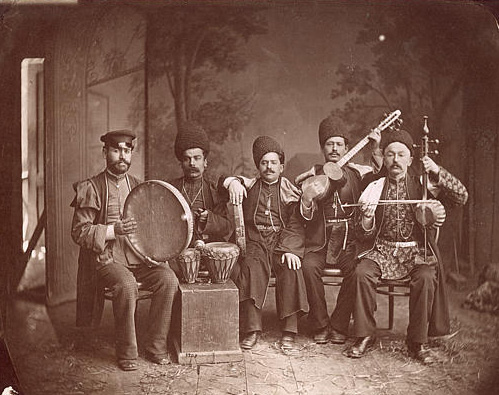 Professional musical group "Sazandari" playing at a festive feast. Georgians. Tiflis Province. Early 20th century. Photo-archive of the RME